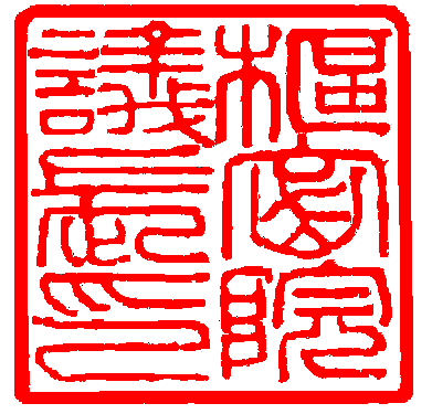 Imprint of President of the Privy Council of Japan